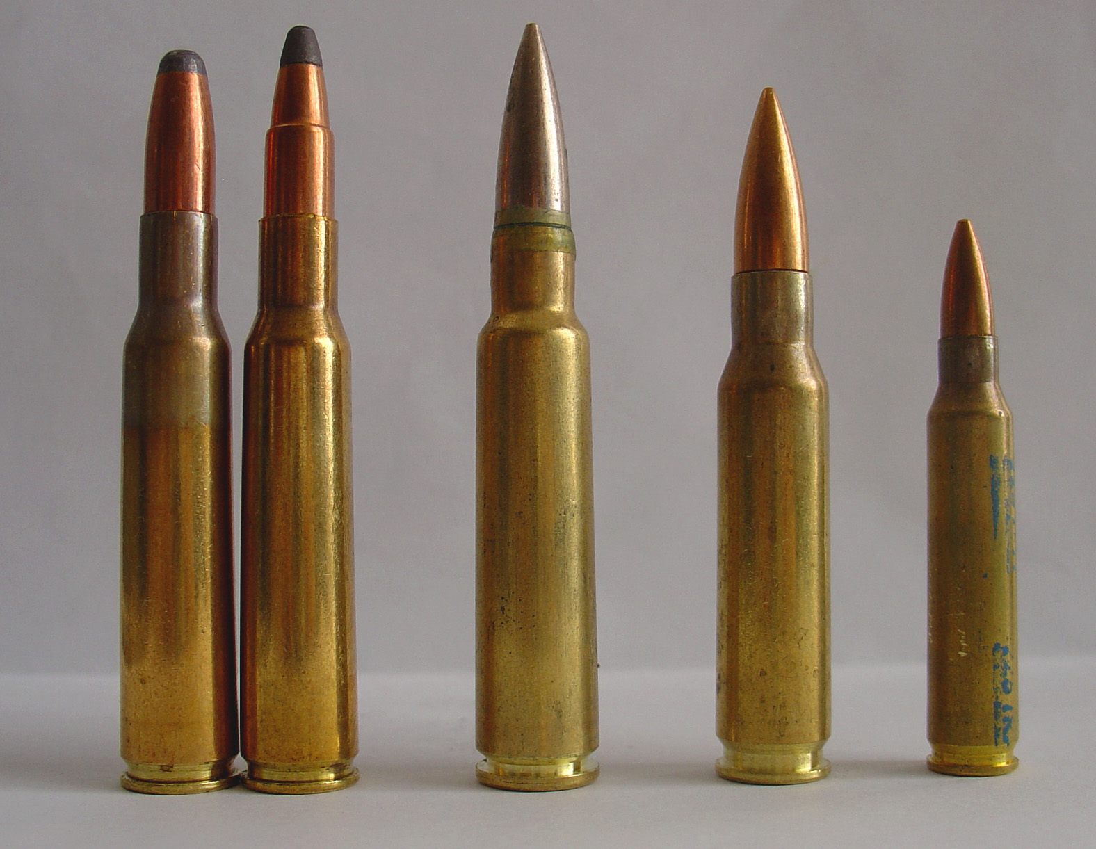 2x 7x57 cartridge next to 7.5x55 Swiss / GP11 (mid), .308 Winchester and .223 Remington (right)